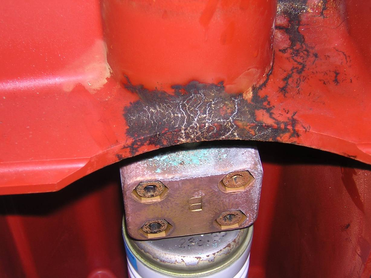 CB Truck showing surface discharge damage